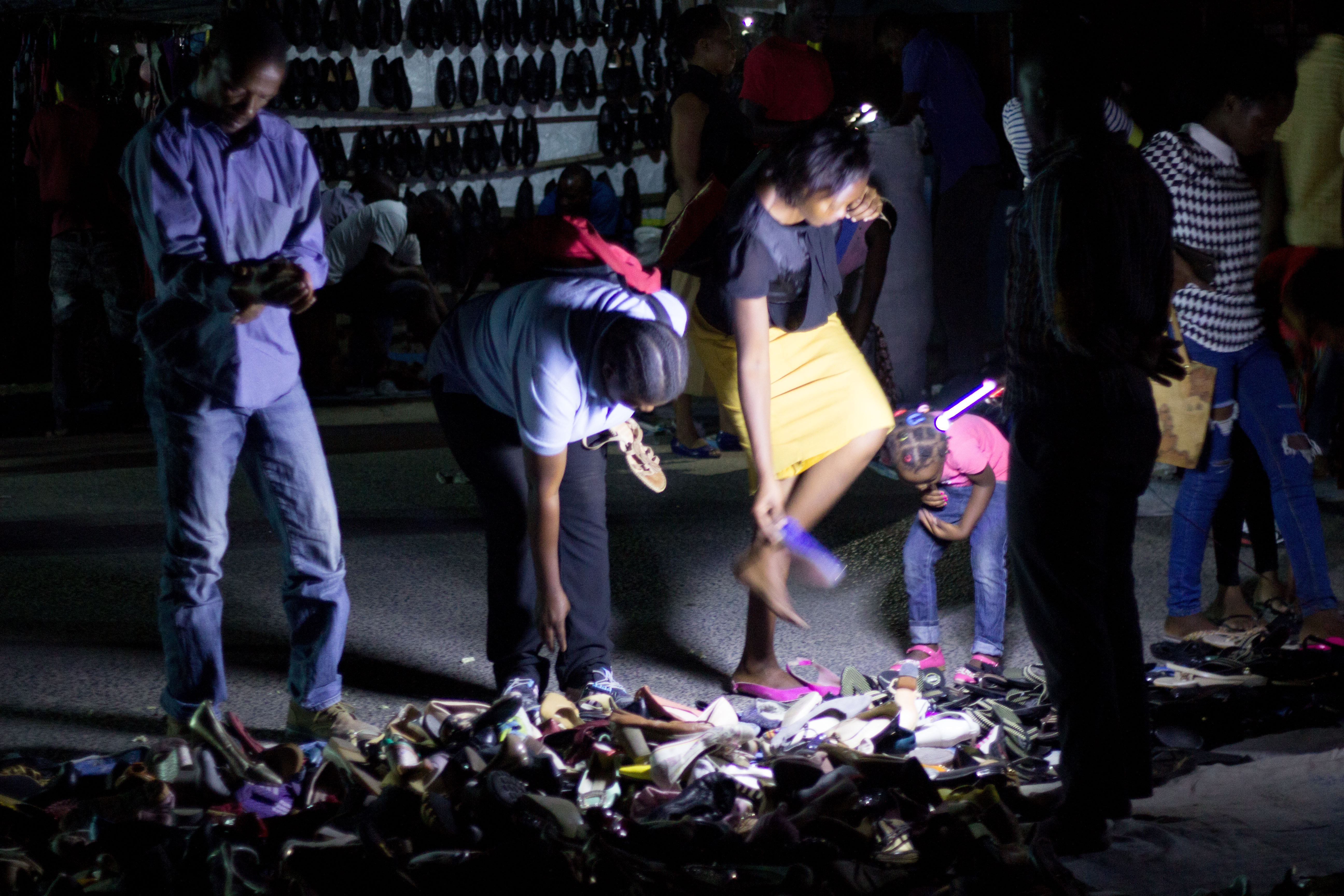 This is an image of "African people at work" from Tanzania